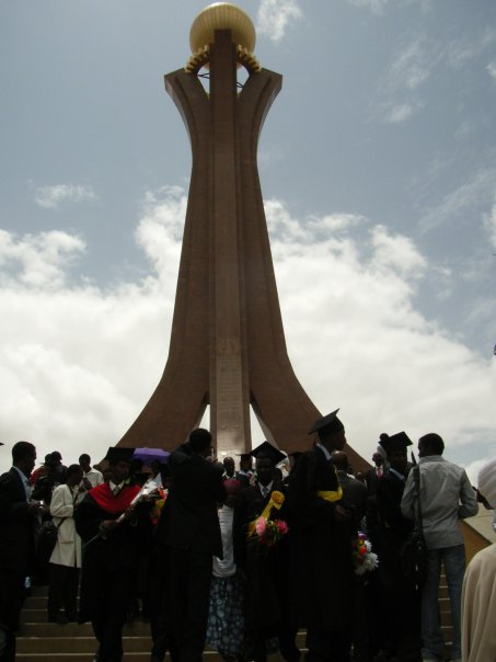 Gathering after Mekelle University graduation ceremony (July 2009) near the TPLF monument in Mekelle, Tigray, Ethiopia.